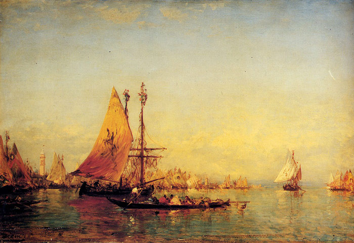 The Grand Canal, Venice